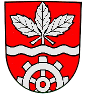 Coat of Arms of Heimbuchenthal